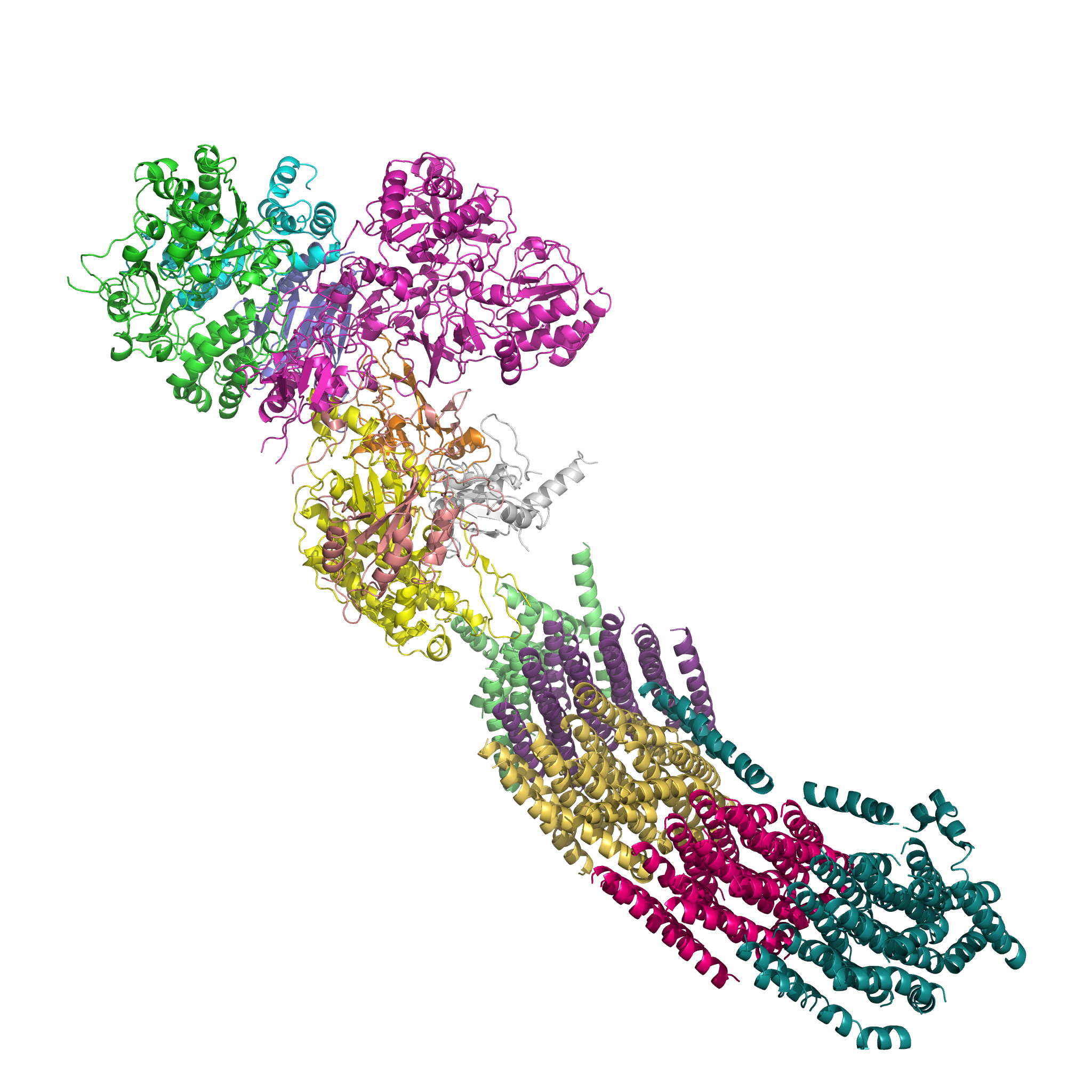 The structure of NADH dehydrogenase from Thermus thermophilus. Generated using data from 3M9S.